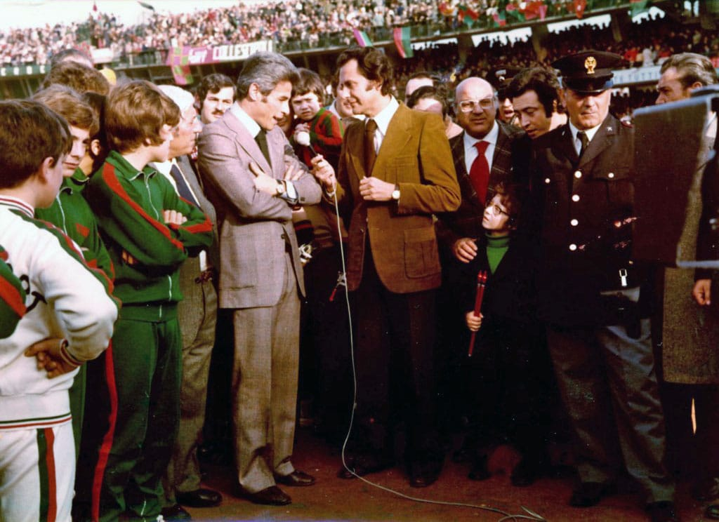 Terni (Italy), Libero Liberati Stadium, October 1, 1972. A.C. Ternana — Milan A.C. 0-0, Matchday 2 of the Italian League 1972–73 Serie A: Ternana's coach Corrado Viciani interviewed by journalist Enzo Stinchelli.